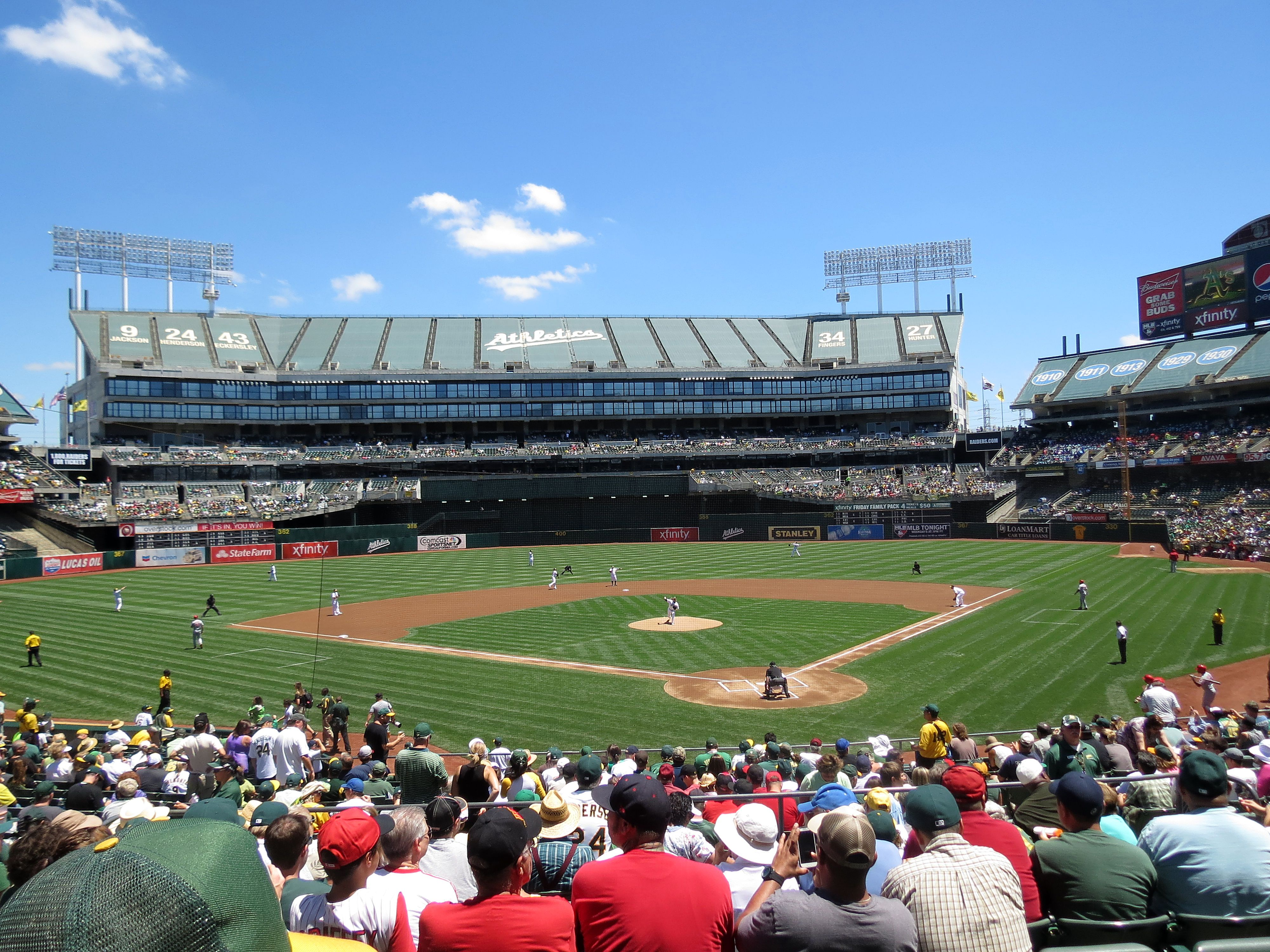 Cincinnati Reds at Oakland Athletics